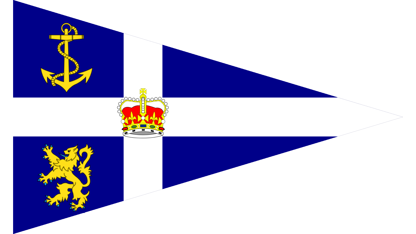 Burgee of the Royal Northern & Clyde Yacht Club, Helensburgh, Scotland